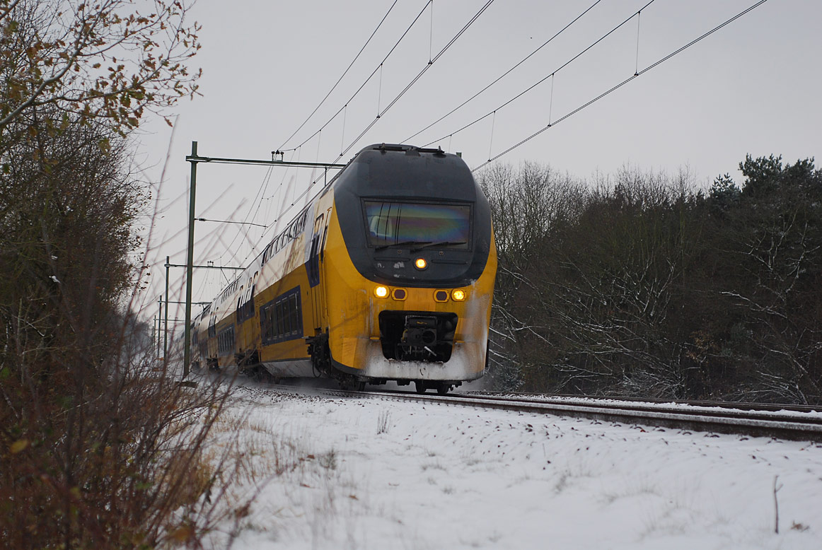 VIRM 8632 tussen Roosendaal en Breda in winters weer.